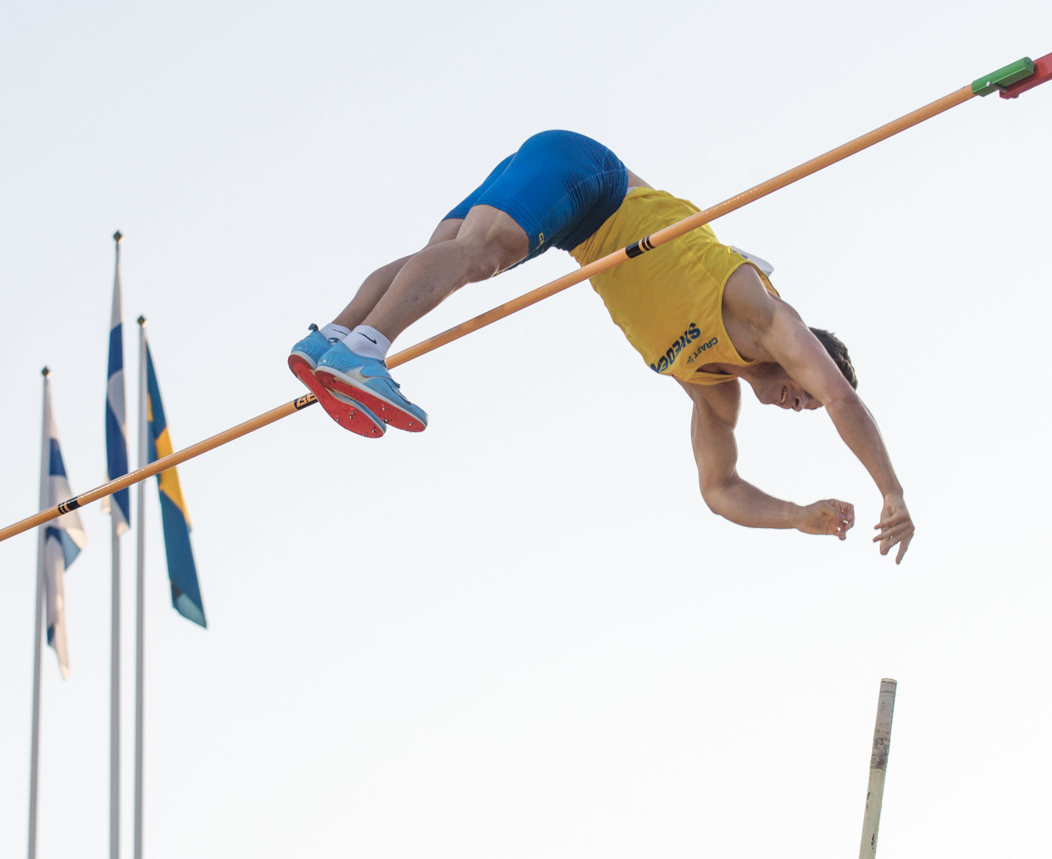 Melker Svärd Jacobsson during the Finland-Sweden athletics international 2019 at the Stockholm Stadium in August 2019.